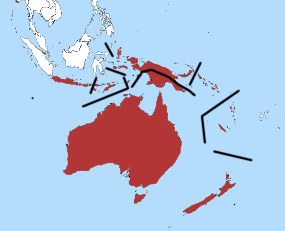 The Distribution of the Australasian Grebe